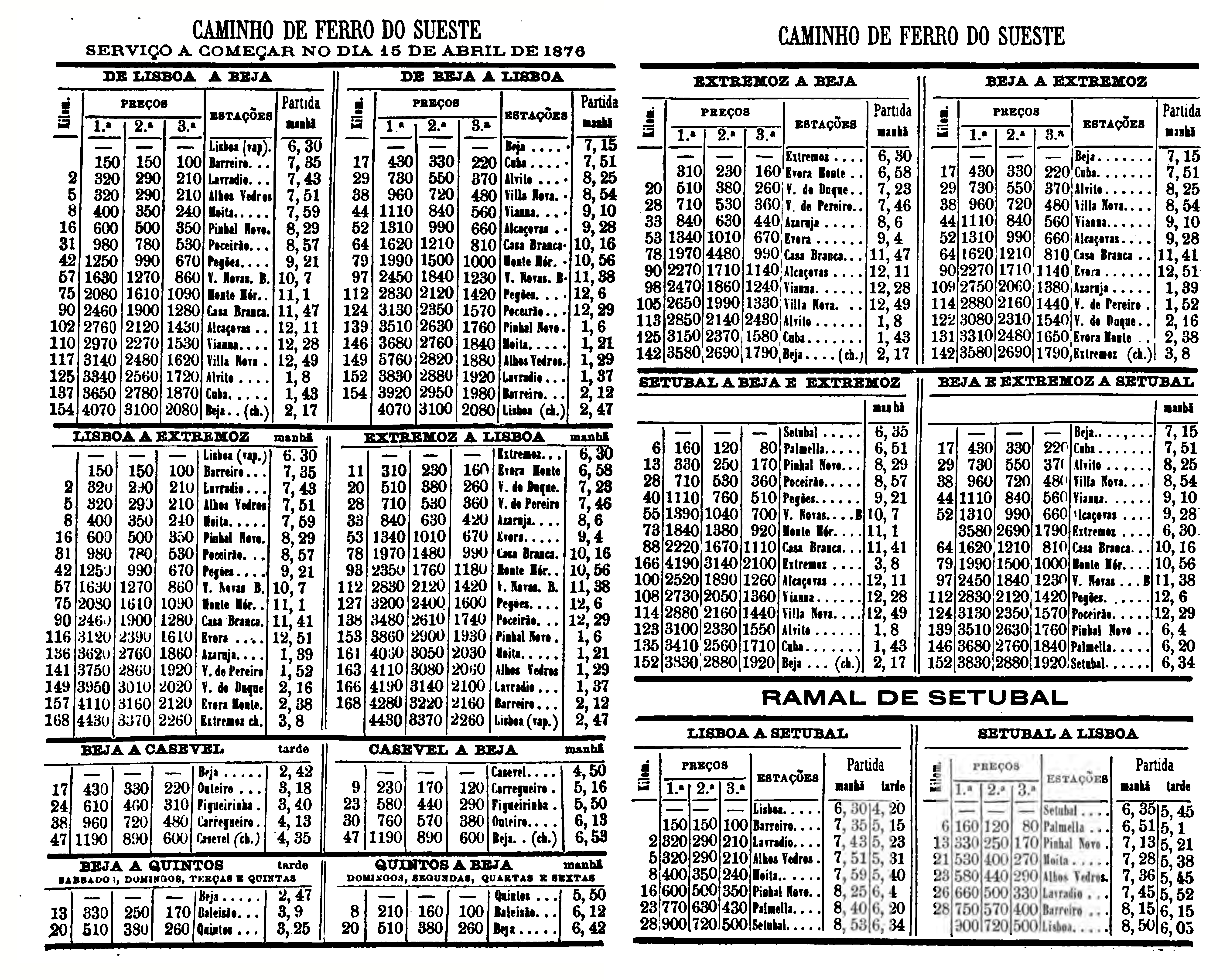 Timetables of the CFS - Caminhos de Ferro do Sueste, a state company that explored all the railway lines South of the Tagus River, and the river boats from Lisbon to Barreiro, in Portugal. This image was originally published in the 1876 book "As Praias de Portugal" by author Ramalho Ortigão, scanned by Google from the library of Harvard University, and available in the website.